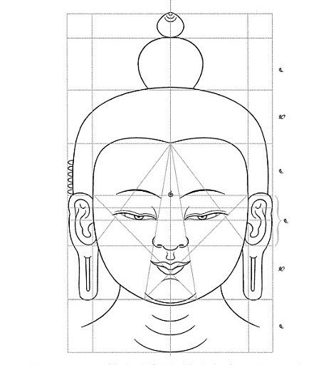 Iconometry of the head of the Buddha